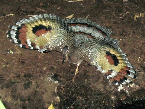 Sunbittern, Eurypyga helias, captive bird. Location: Central Park Zoo, New York, United States